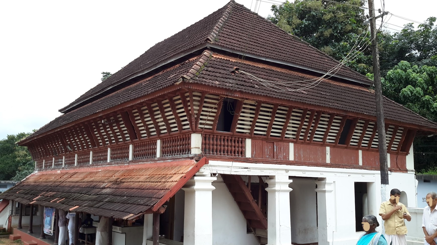 Kadamattom church pallimeda